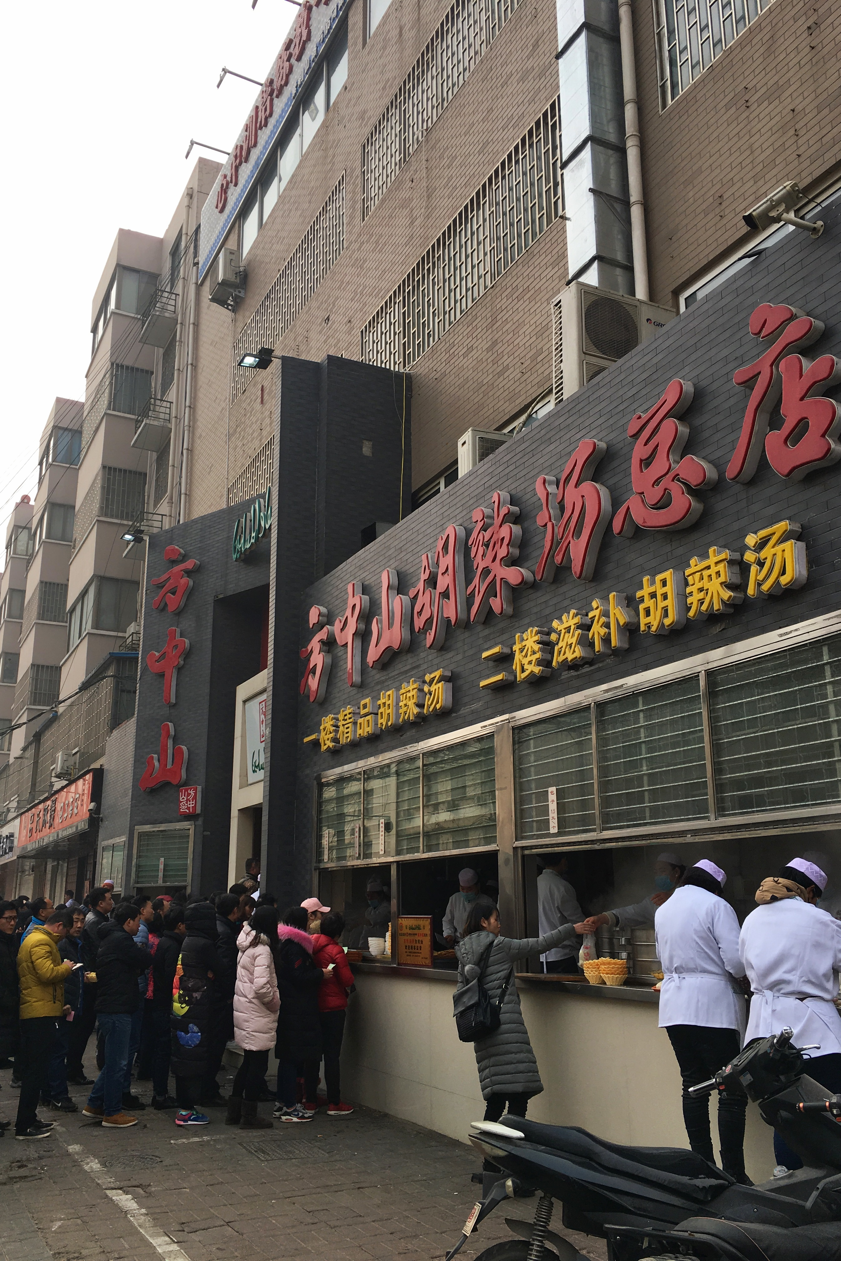 A famous chained restaurant in Zhengzhou mainly offering Hulatang (pepper and spice soup, a Henan style soup)